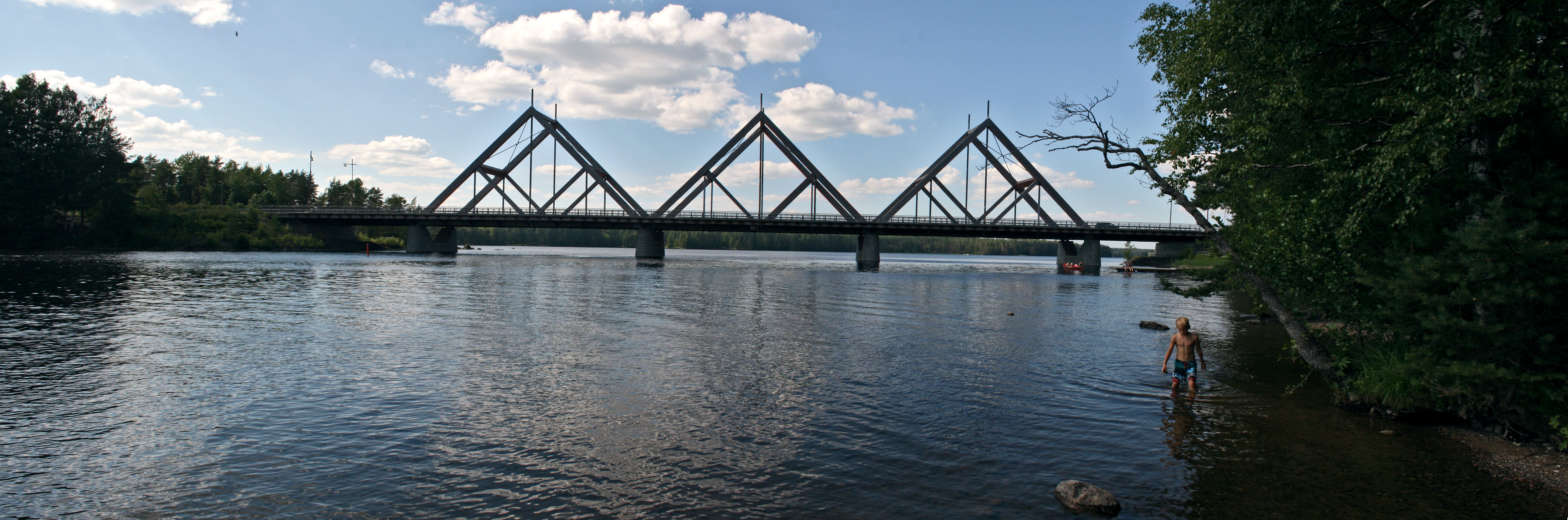 Strait Vihantasalmi deal Lake Lahnavesi in two parts. Finnish national road 5 is crossing the strait on this bridge.